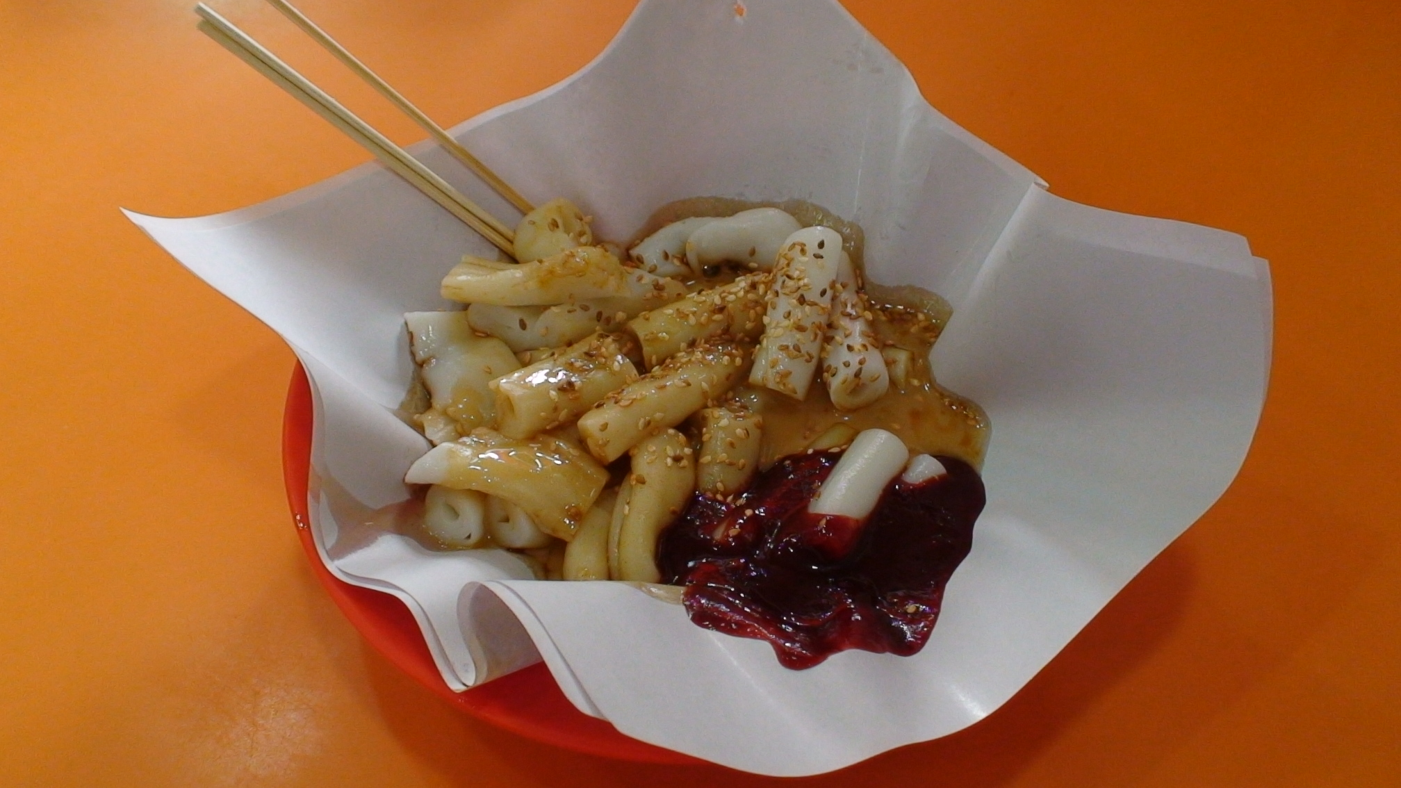 Jue Cheung Fan (豬腸粉), a Cantonese local food, with sauce